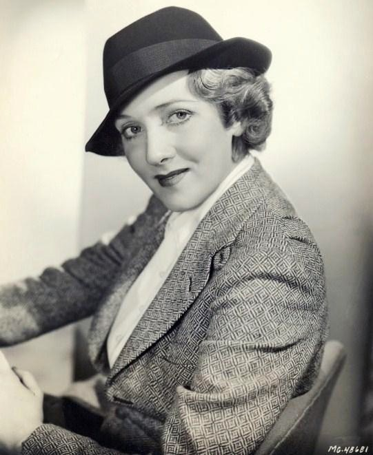 Helen Flint in Ah, Wilderness! (1935) - publicity still (cropped)